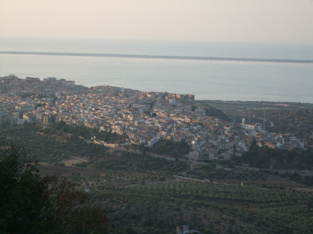 Panoramic view of Cagnano Varano (Italy)